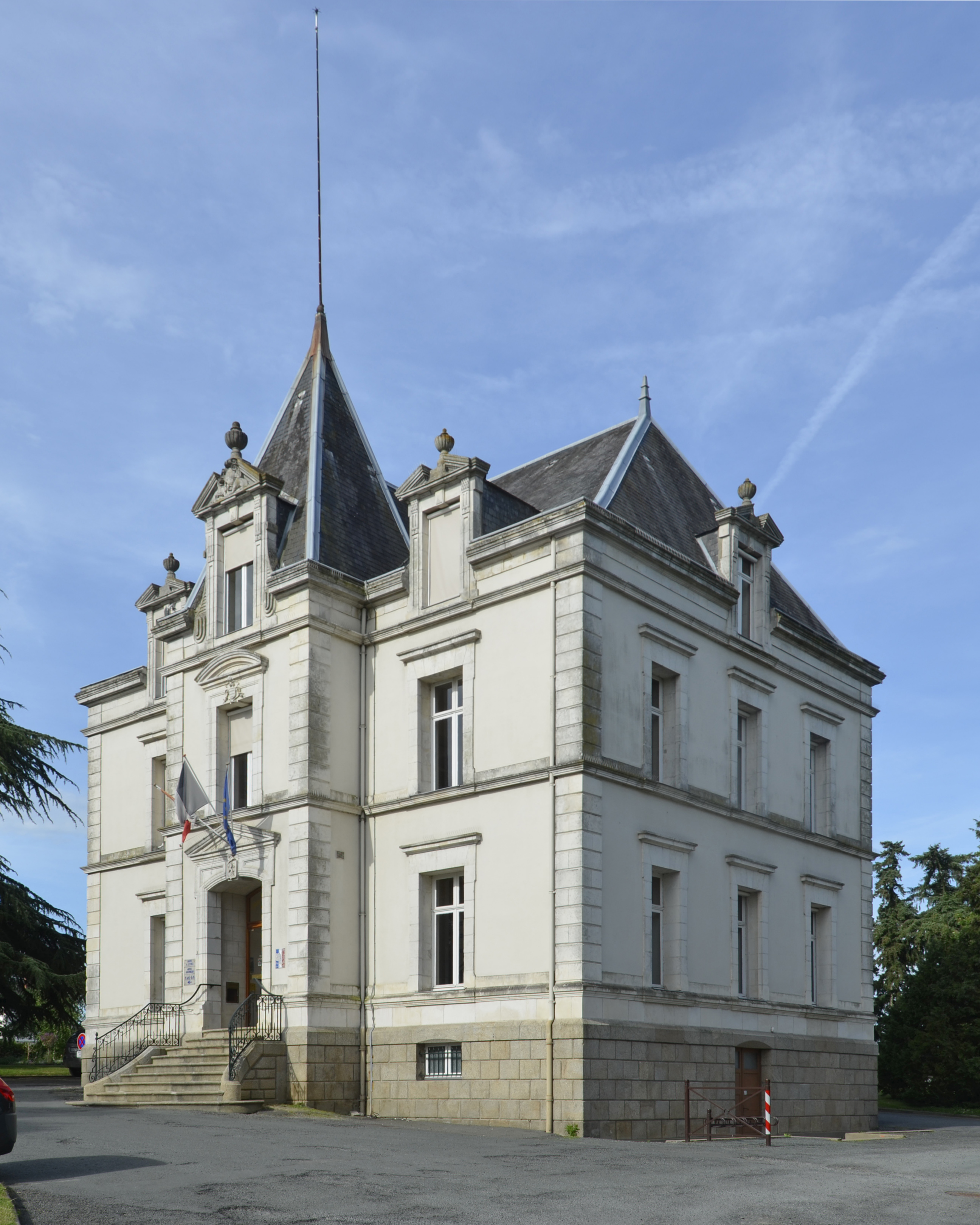 Les Herbiers city hall - Vendée, France